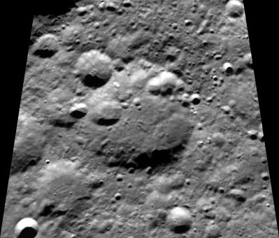 Thiessen lunar crater - Clementine image